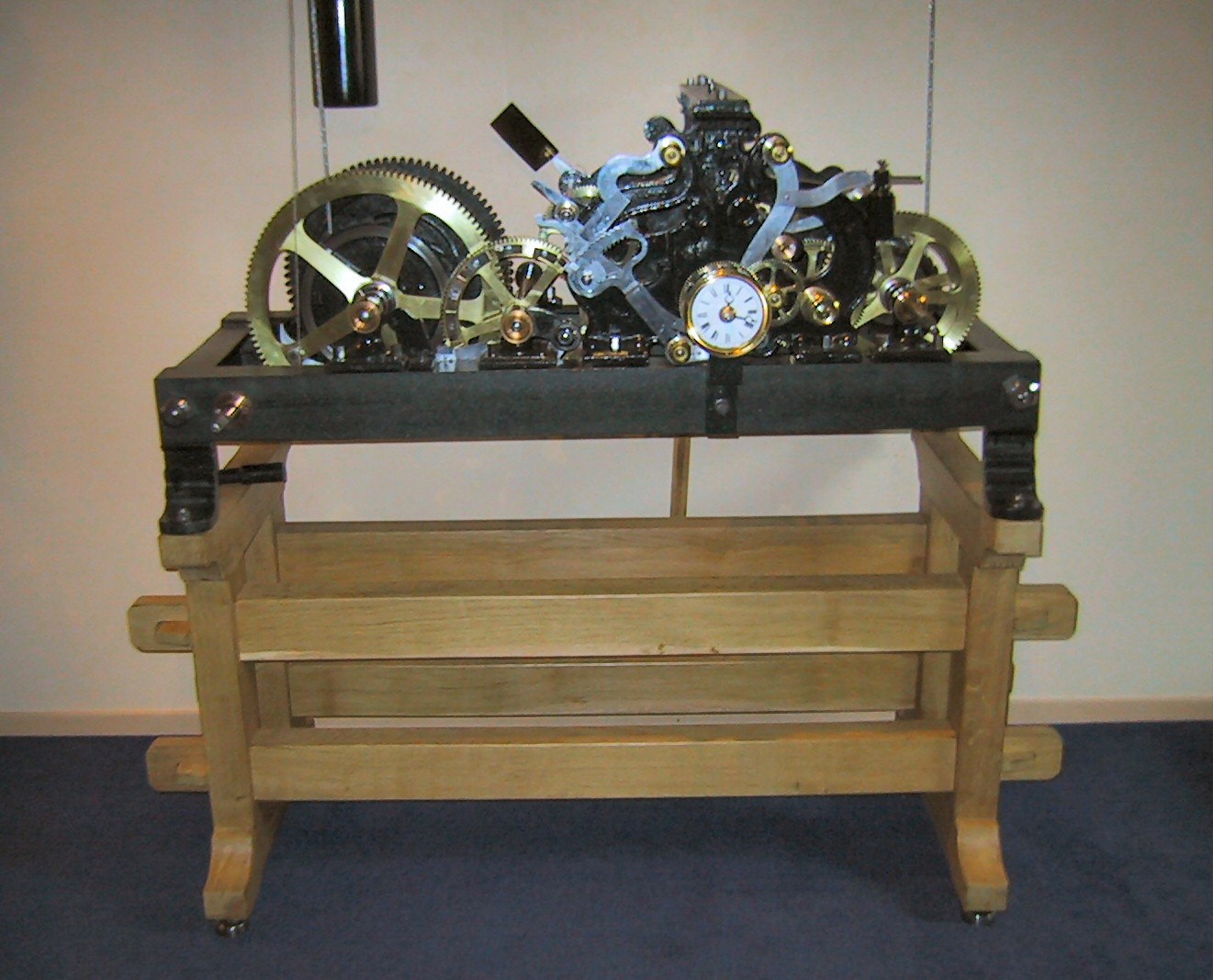 Restored turret clock.